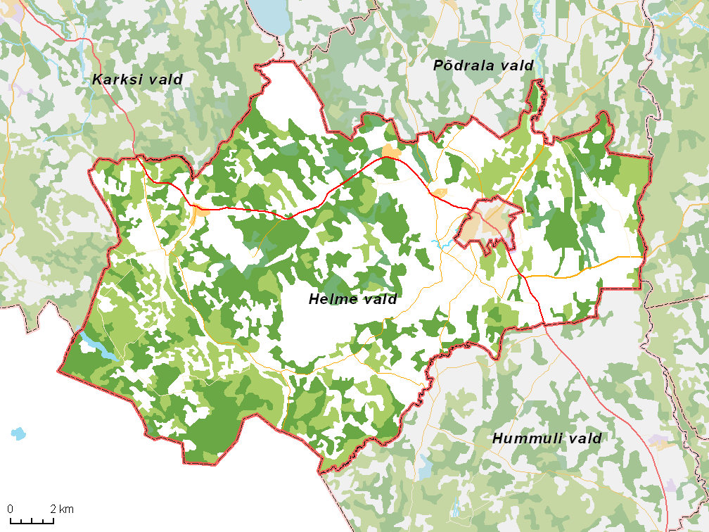 Map of municipality in Estonia